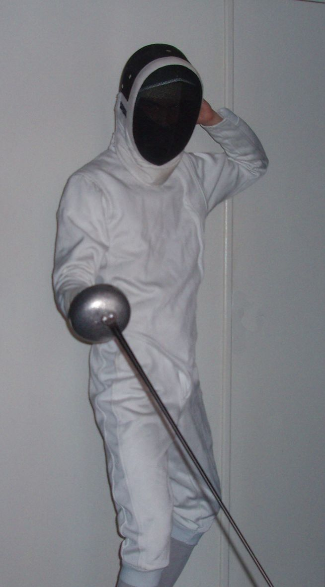 Eighth position in Fencing (Octave)